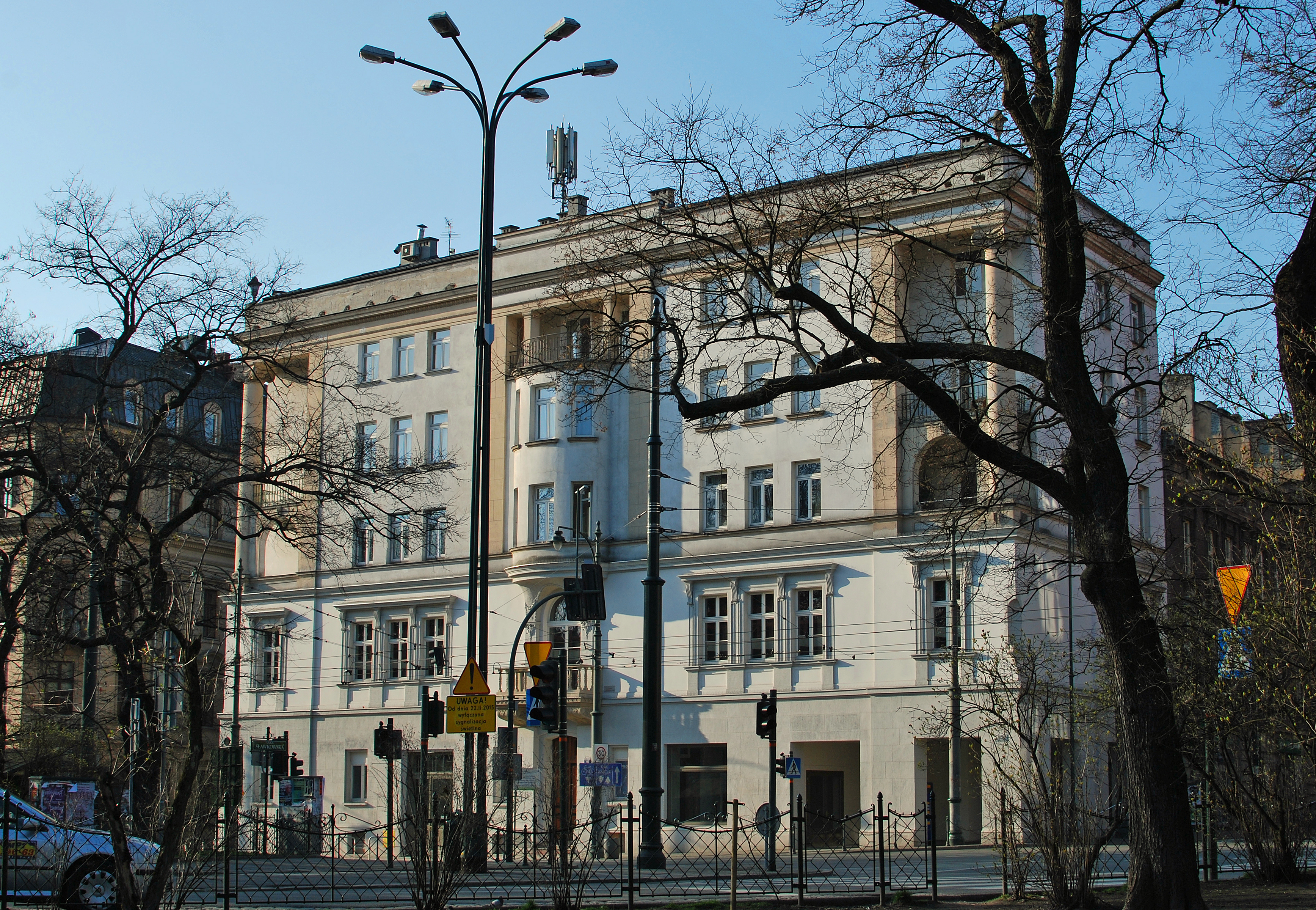 Tenement house,1929 designed by Roman Bandurski and Emil Allweil, 10 Basztowa street, Kleparz, Krakow, Poland